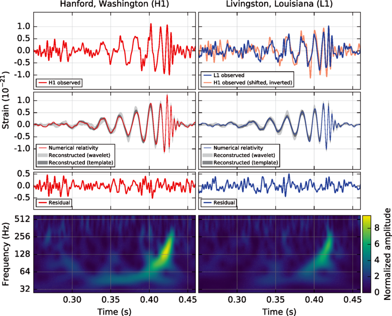 LIGO measurement of gravitational waves. Shows the gravitational wave signals received by the LIGO instruments at Hanford, Washington (left) and Livingston, Louisiana (right) and comparisons of these signals to the signals expected due to a black hole merger event.